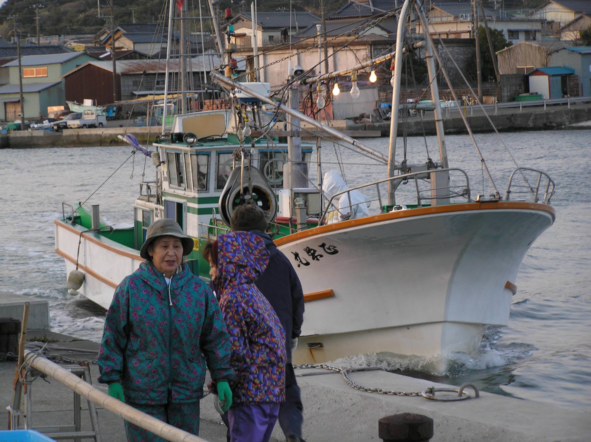 Morning at the Ohara Fishing Port in Isumi City, Chiba Prefecture, Japan